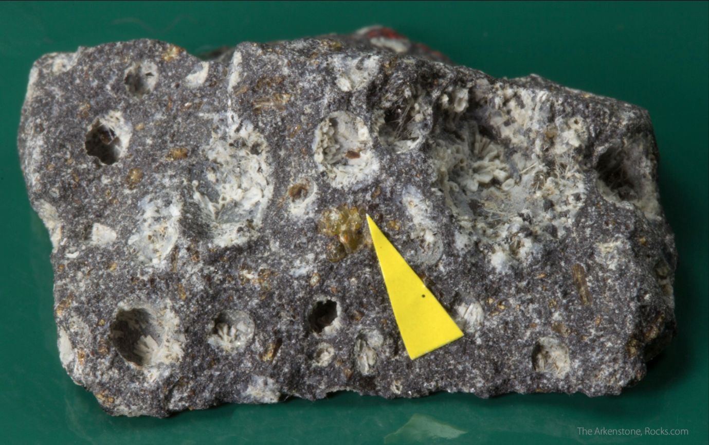 A very interesting piece under the microscope. Vesicles in this olivine nephelinite contain microcrystals of orange-brown, prismatic to platy oxykinoshitalite associated with nepheline, calcite, and an apatite group mineral. An unassuming specimen in hand sample, but fairly remarkable under modest magnification. Oxykinoshitalite is a rare and complex barium potassium magnesium titanium iron layer silicate and a member of the Mica Group. Ex. Paulo Matioli collection. 3.0 x 2.0 x 1.0 cm. From: Fernando de Noronha island, Fernando de Noronha archipelago, Pernambuco, Brazil.